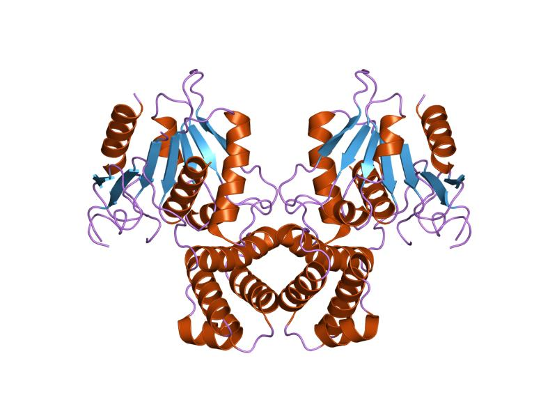 Cartoon representation of the molecular structure of protein registered with 1xkt code.